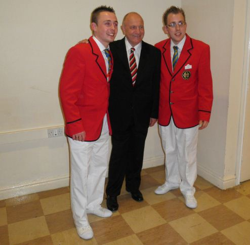 2 Redcoats at Butlin's Minehead in March 2011, with a former prestigeous footballer George Cohen MBE.